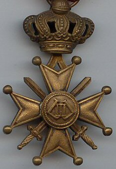 Belgian 1940-1945 War cross (reverse)